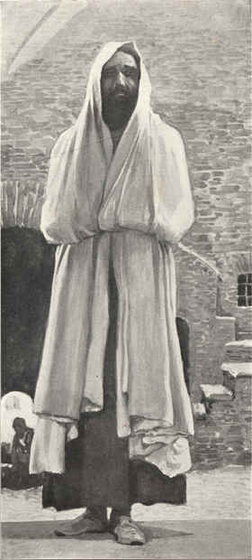 Malichi, the prophet, watercolor circa 1896–1902 by James Tissot